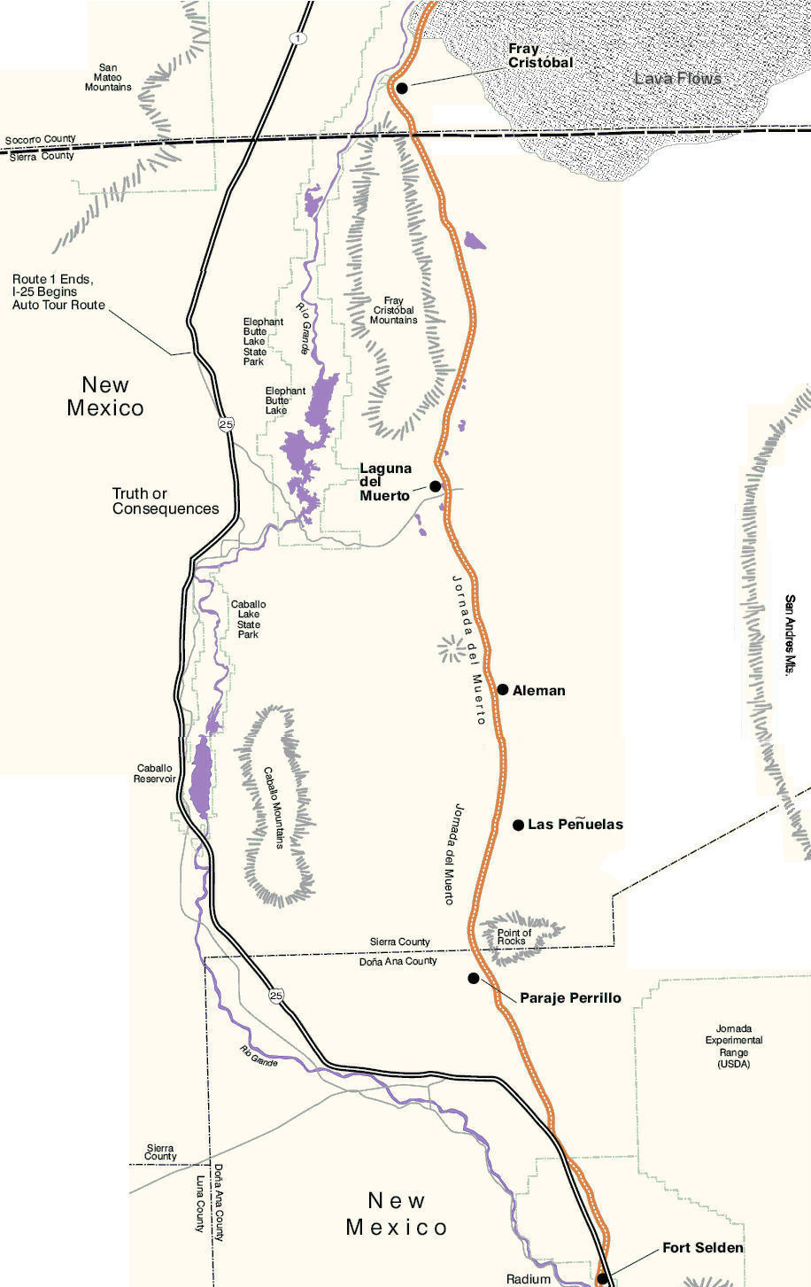 Map of the Jornada del Muerto, New Mexico, USA